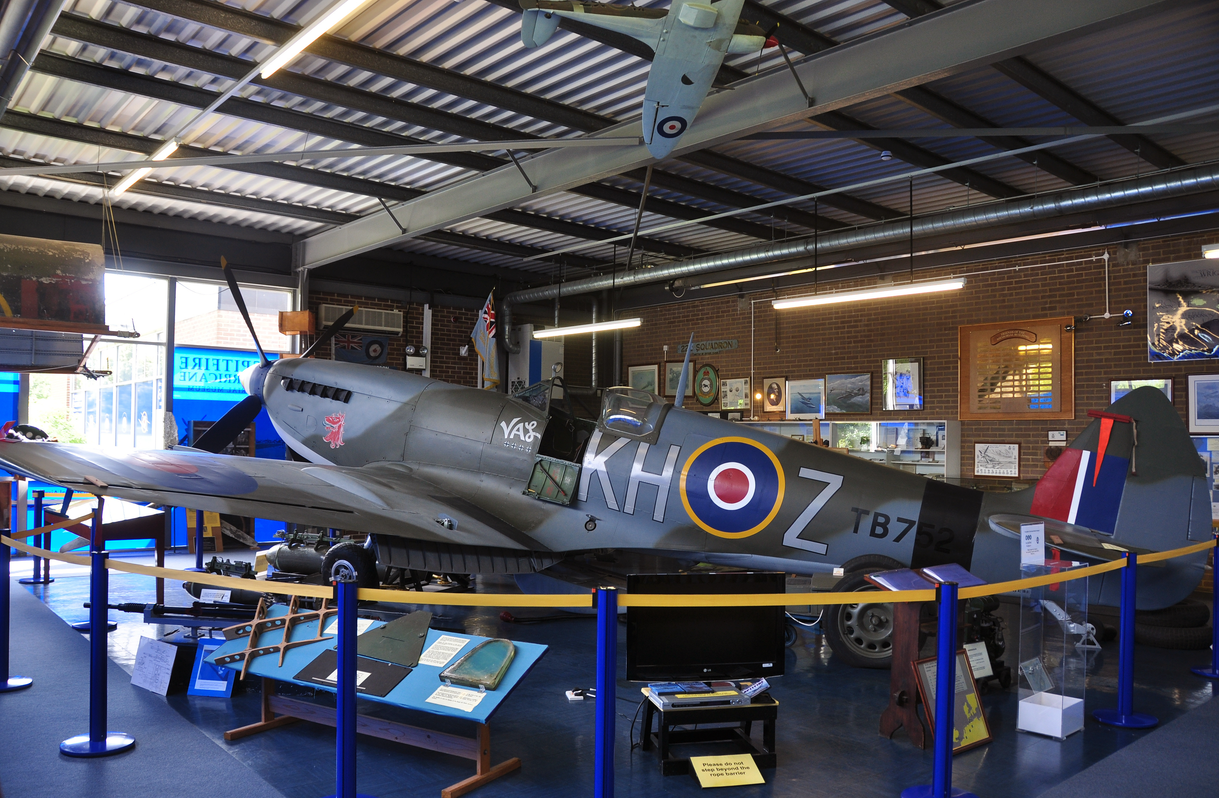 A Supermarine Spitfire at the Spitfire and Hurricane Memorial Museum in Manston, Kent.